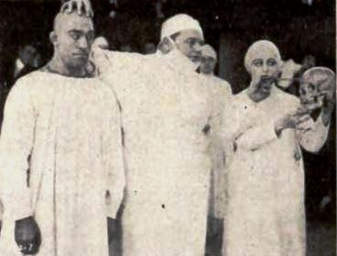 Still from the American comedy film Crazy to Marry (1921) with Roscoe Arbuckle, on page 50 of the September 10, 1921 Exhibitors Herald.